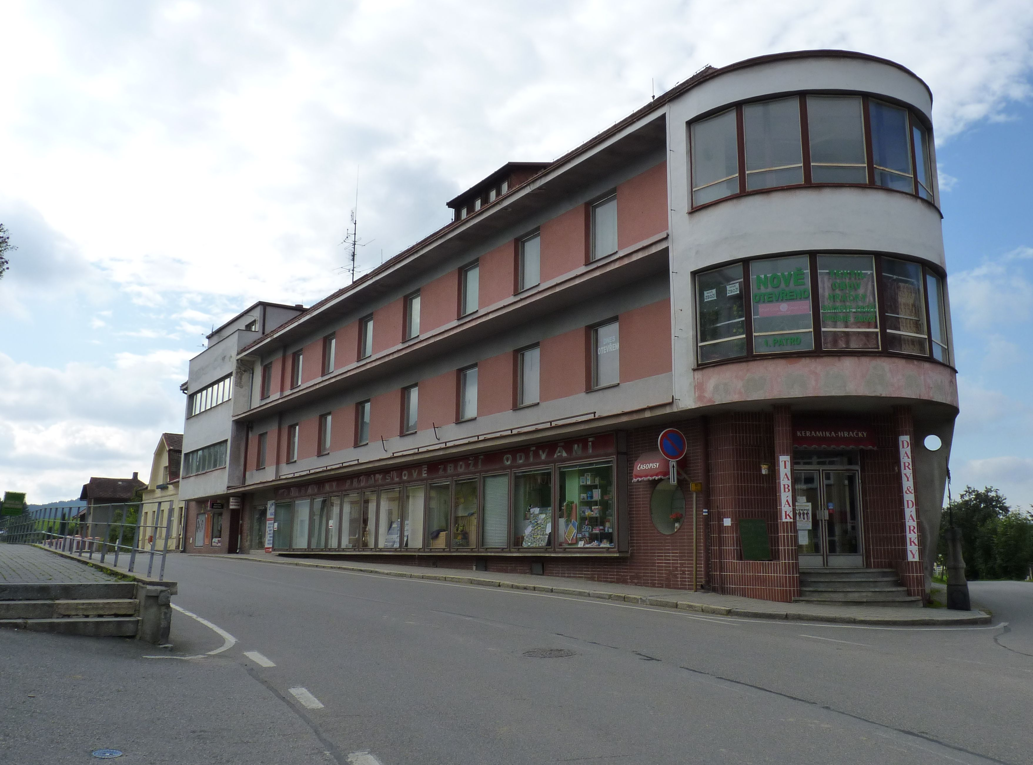 Vacov, Prachatice District, South Bohemian Region, Czech Republic